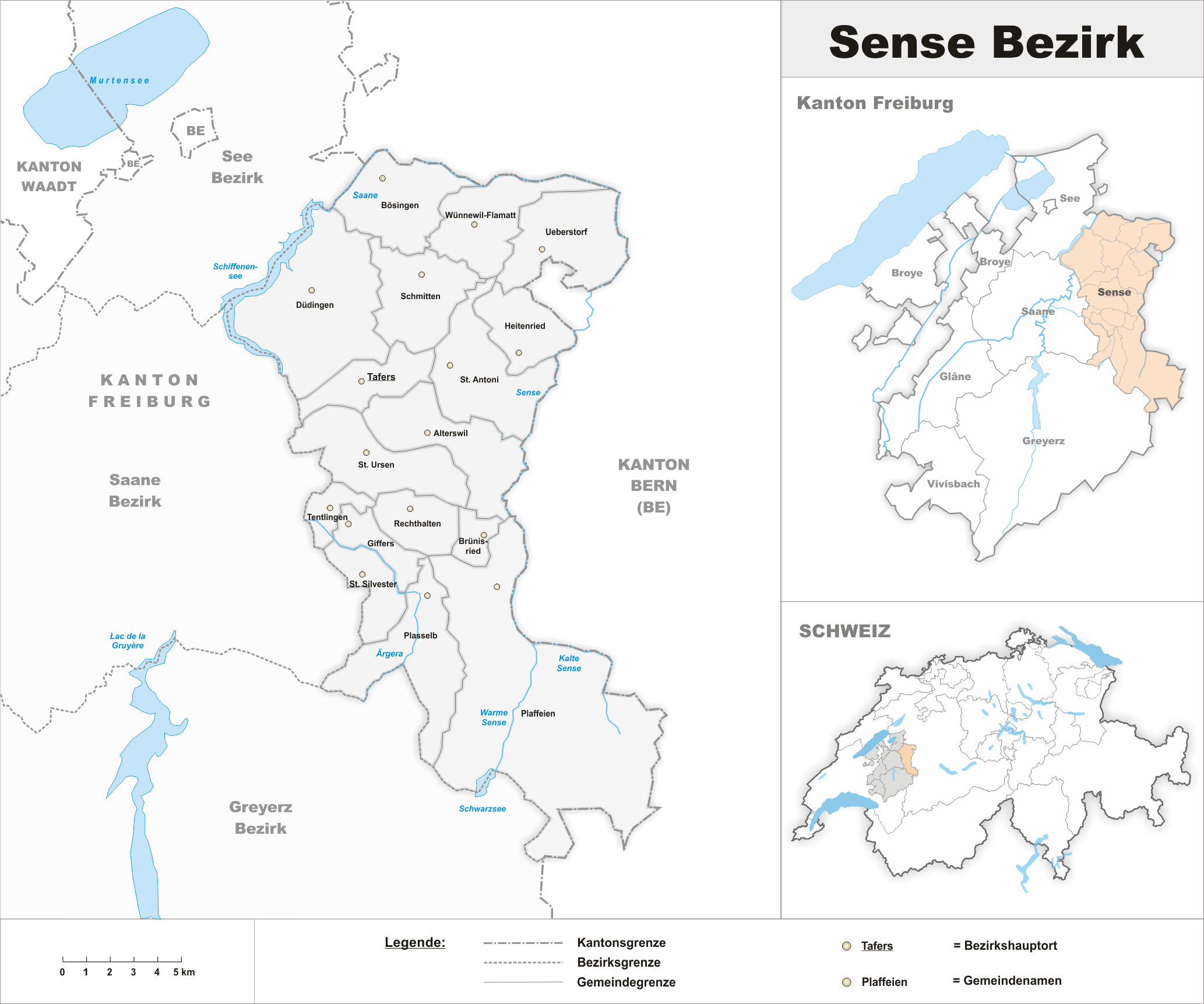 Municipalities in the district of Sense